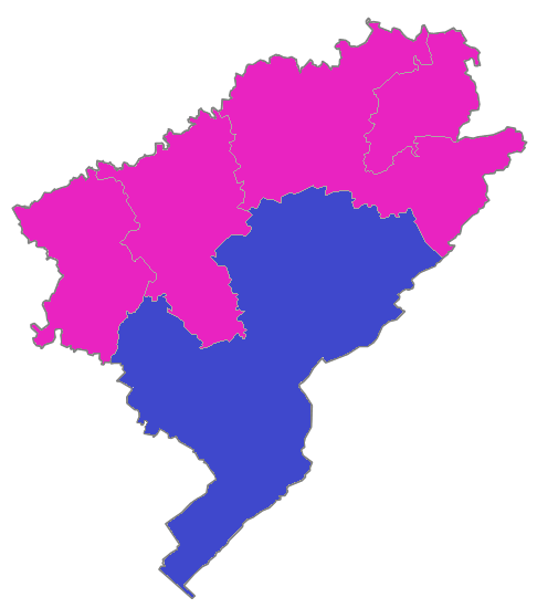 French legislative election in Doubs, 1997